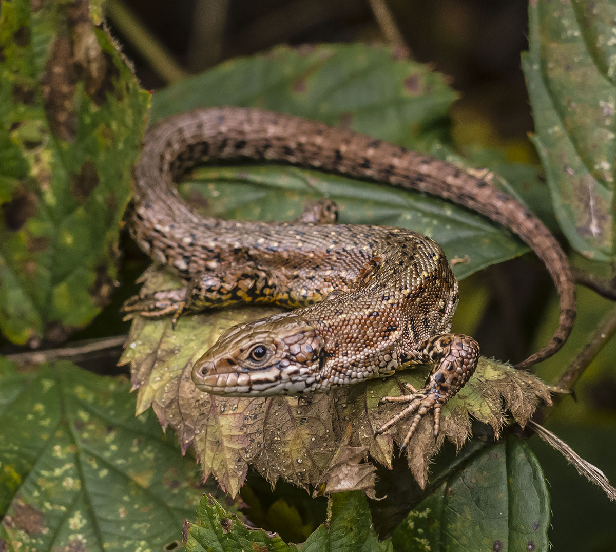 Viviparous lizard (Zootoca vivipara) in the Aamsveen, The Netherlands